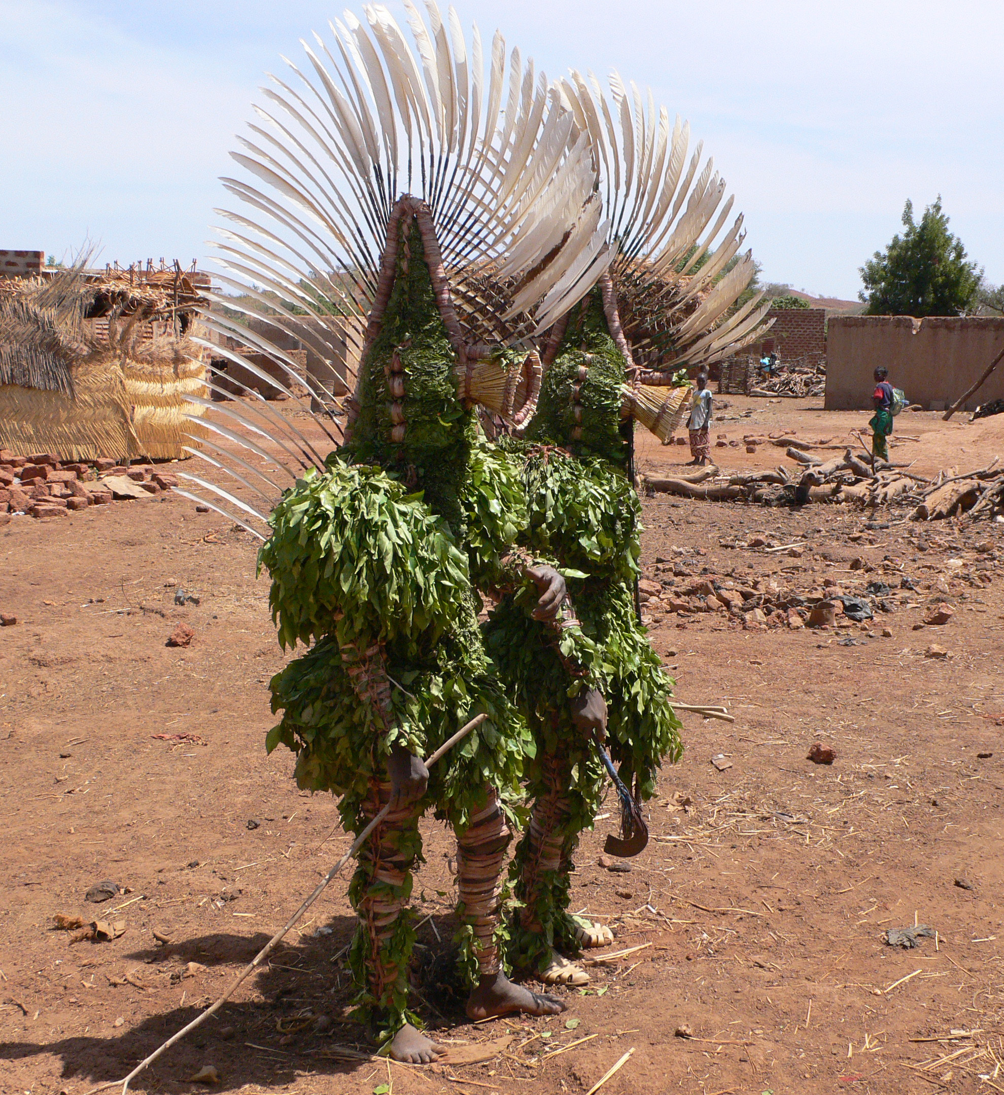 Two leaf masks in the Bwa village of Boni, Burkina Faso, spring, 2006. Photo by Christopher D. Roy